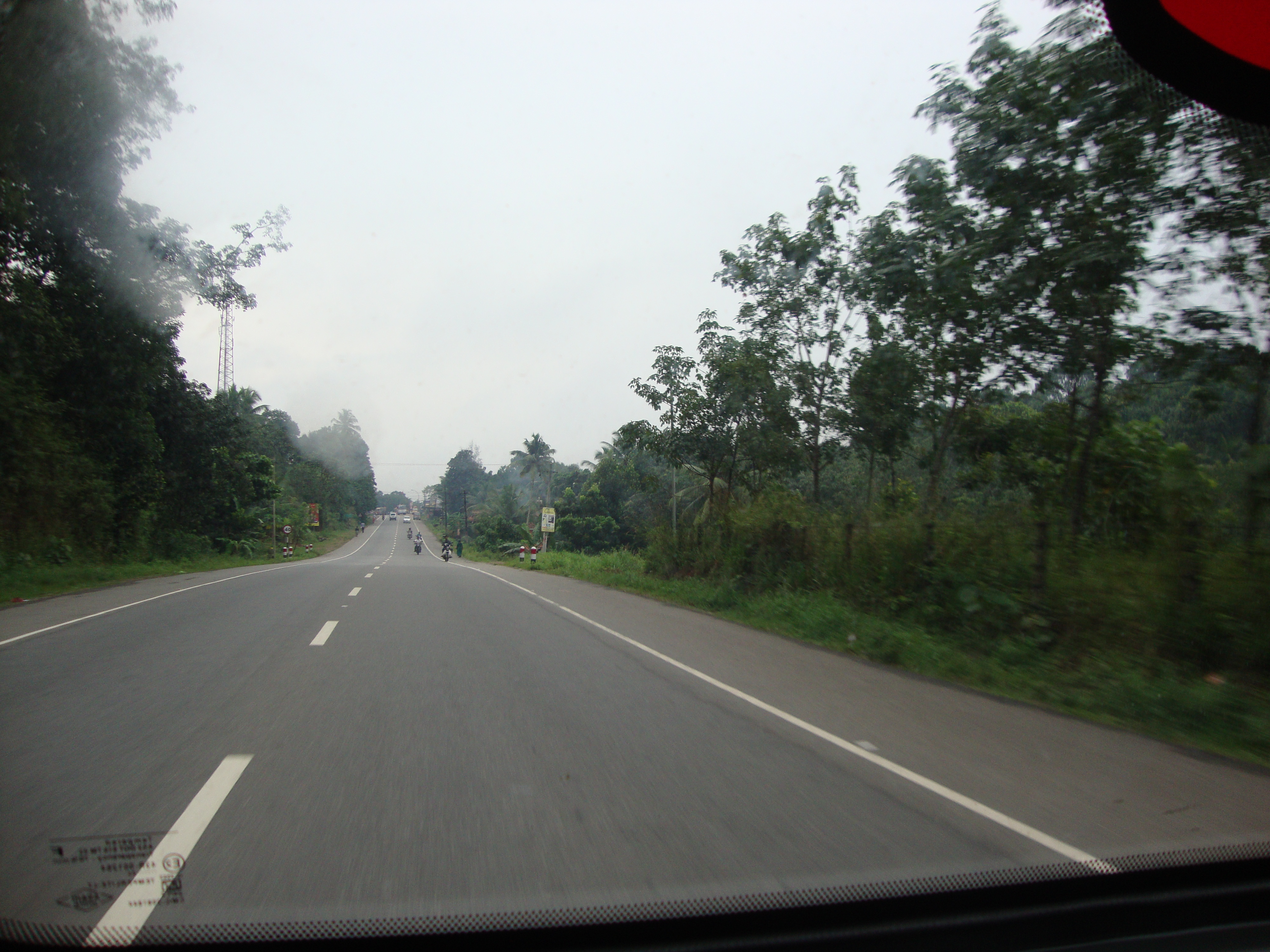 SH1, the state highway near Chengannur